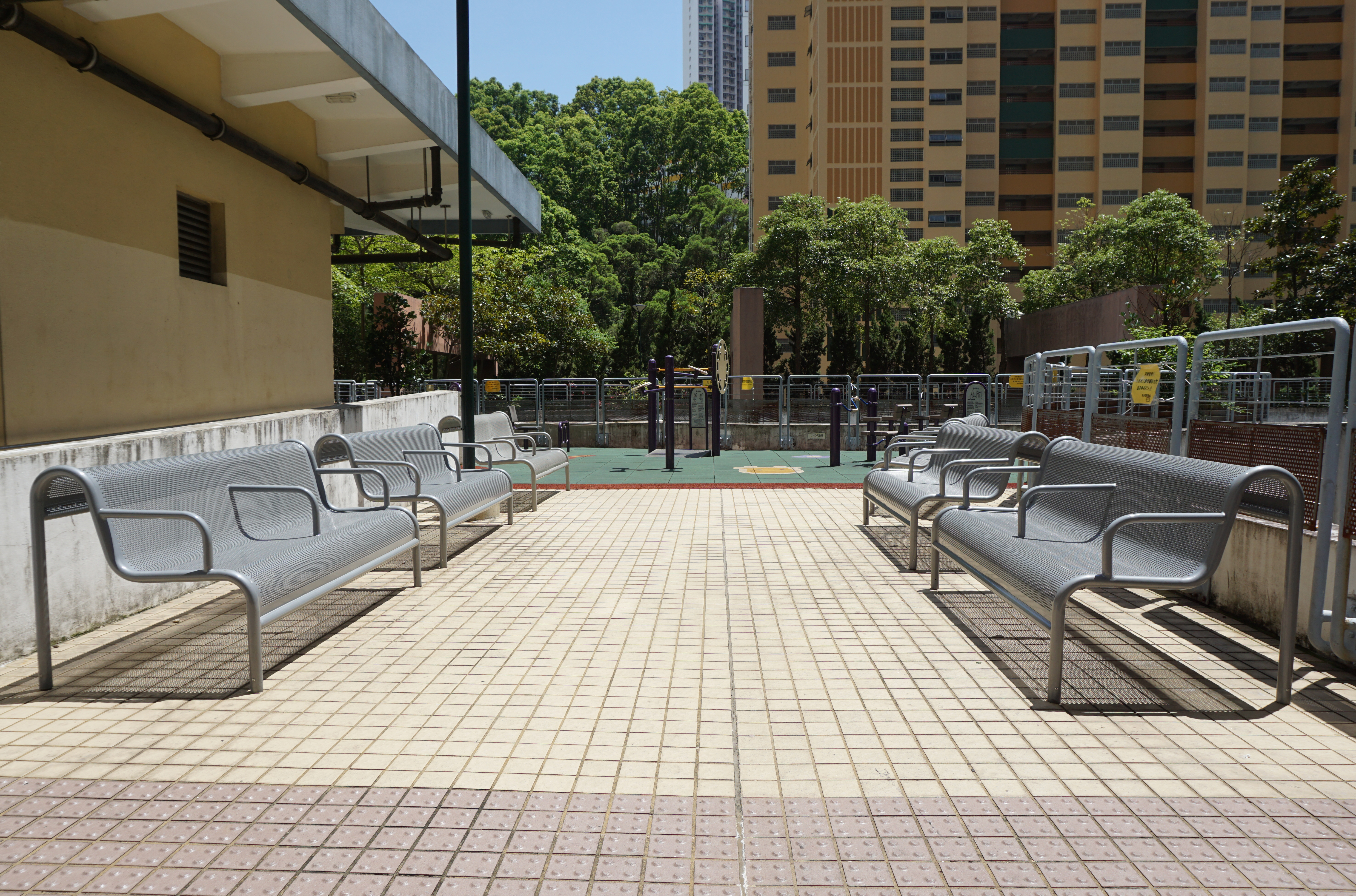 Kwai Chung Estate in Kwai Chung, Hong Kong.